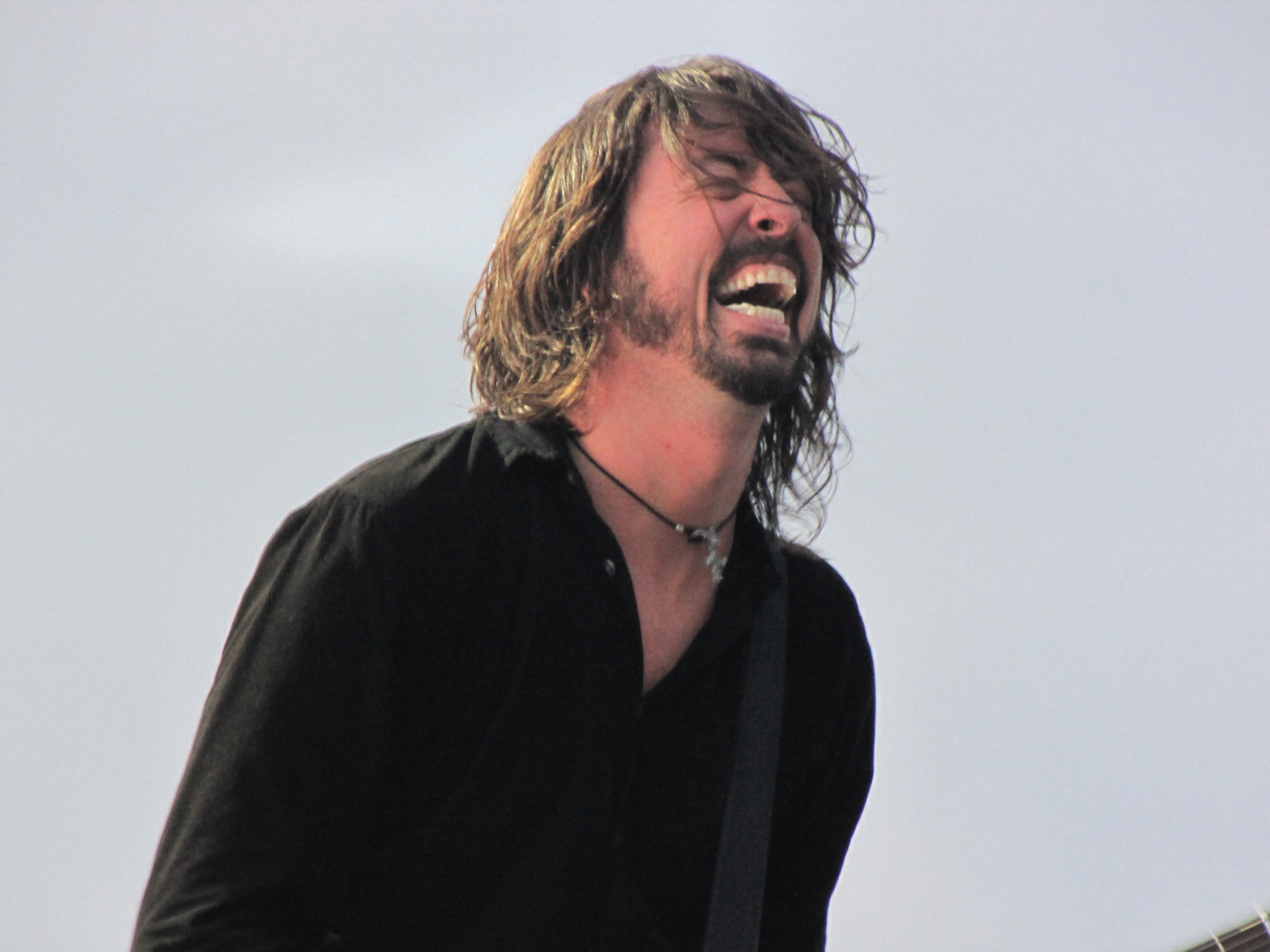 National Bowl, Milton Keynes, 03/07/2011.